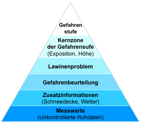 this pyramide shows the importance of several issues of an averlange bulletin